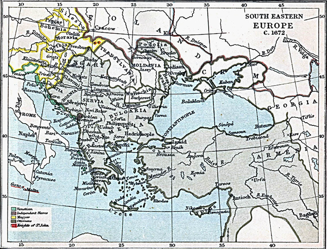 Map of south-eastern Europe in 1672 AD.